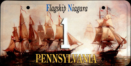 Pennsylvania Flagship Niagara Governor's License Plate